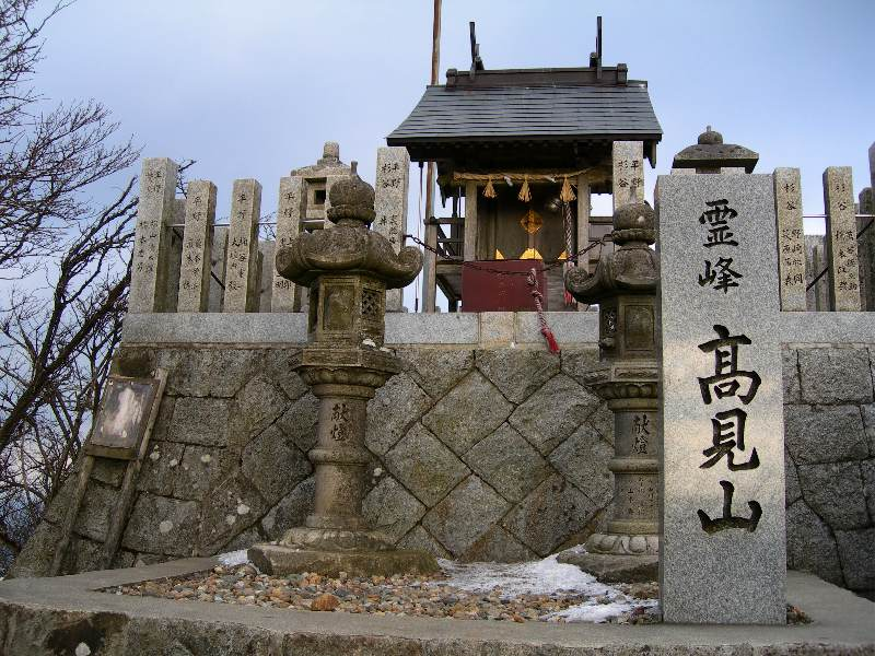 Takakado-jinja on top of Mt. Takami which is the boundary between Nara and Mie prefecture, Japan.